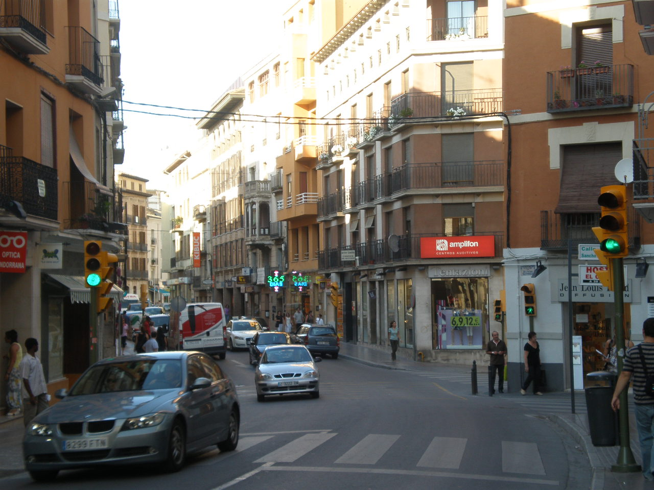 Coso street (Huesca)